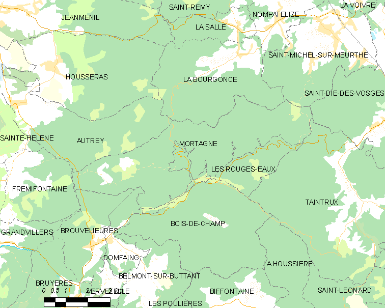 Map of French municipality Mortagne